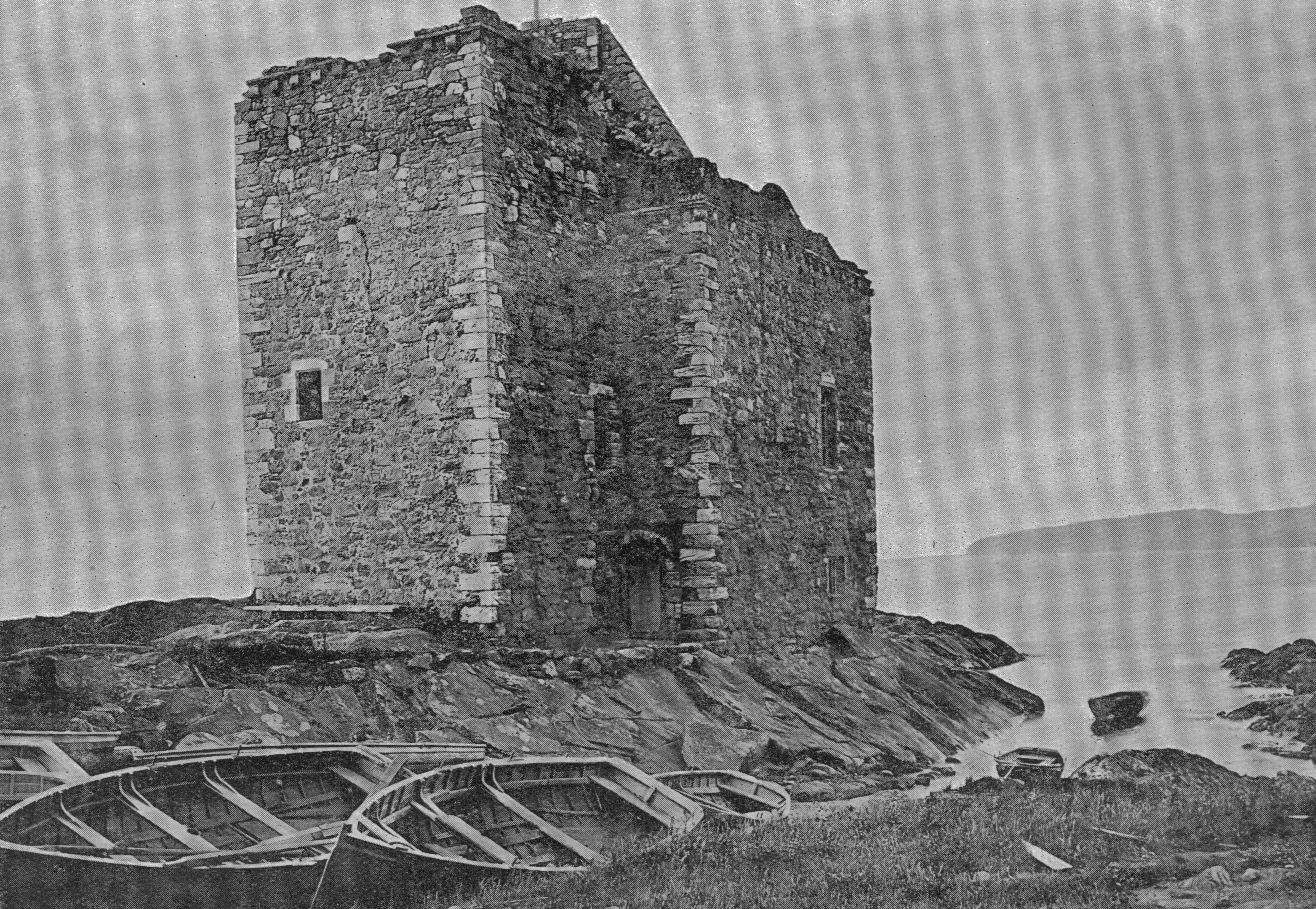 Portencross Castle, North Ayrshire, Scotland. 1900.